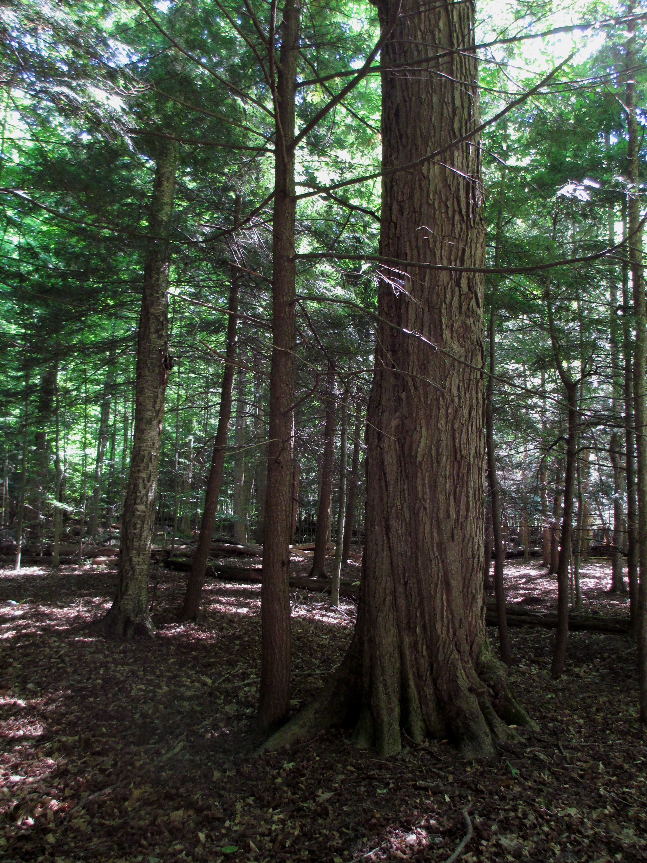 Bottomland old-growth forest within Zoar Valley Unique Area